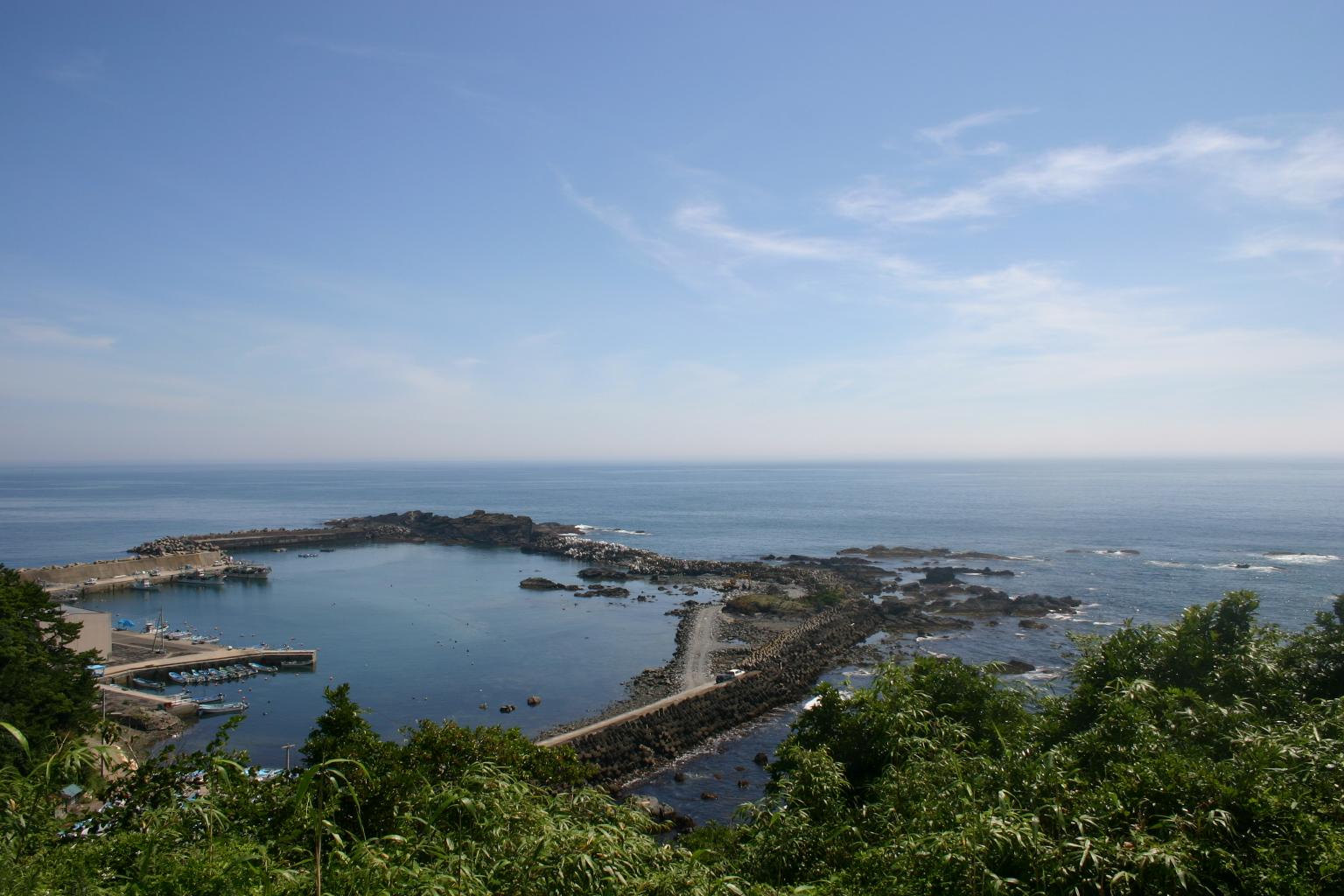 Osu Fishing Port as viewed from the Osusaki Lighthouse in Ishinomaki City, Miyagi Prefecture, Japan